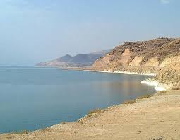 the picture of the dead sea